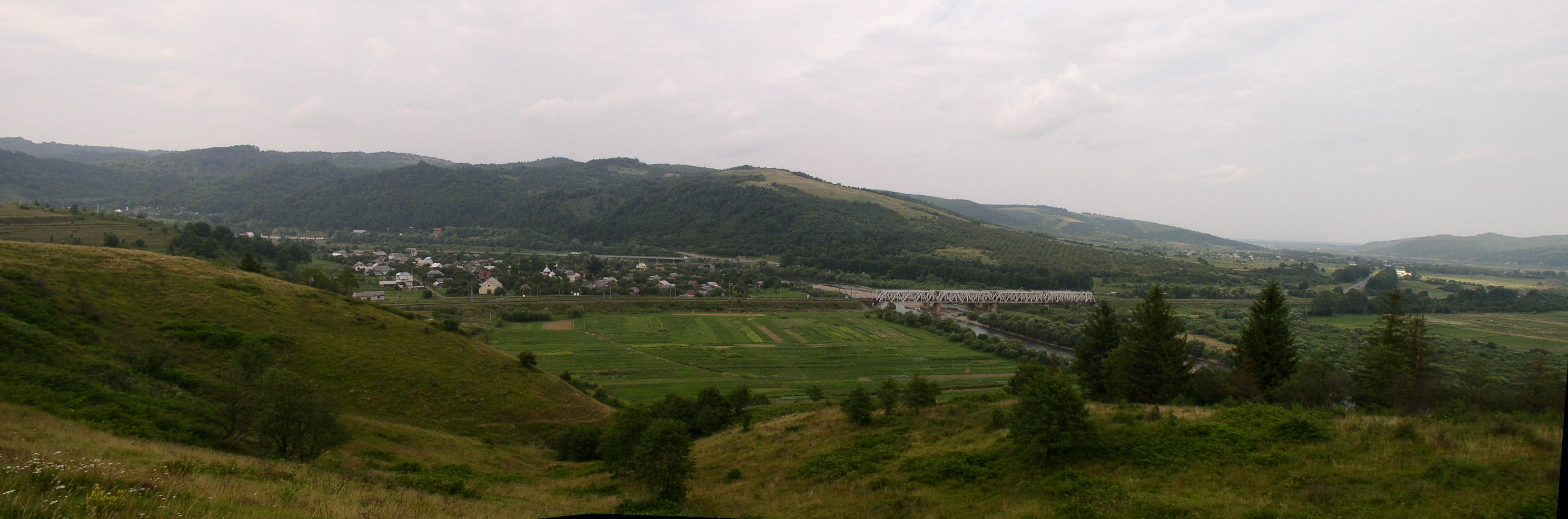 Panorama of Verkhnye Syn'ovydne, Ukraine.